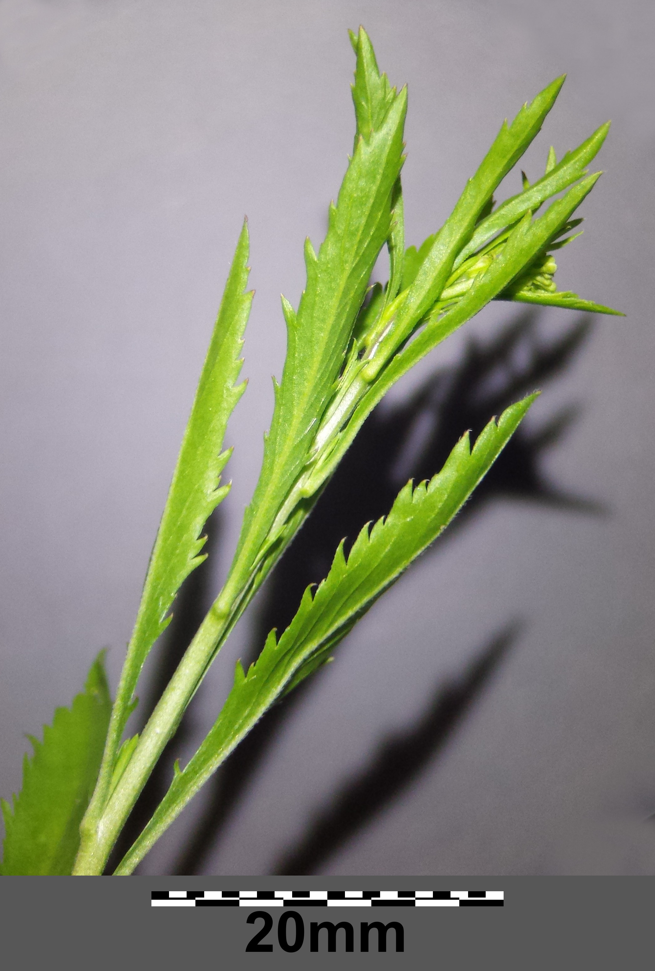 Stem with leaves Taxonym: Lepidium virginicum (subsp. virginicum) ss Fischer et al. EfÖLS 2008 ISBN 978-3-85474-187-9 Location: Jedlersdorf rail station, Vienna-Floridsdorf - ca. 160 m a.s.l. Habitat: sandy area